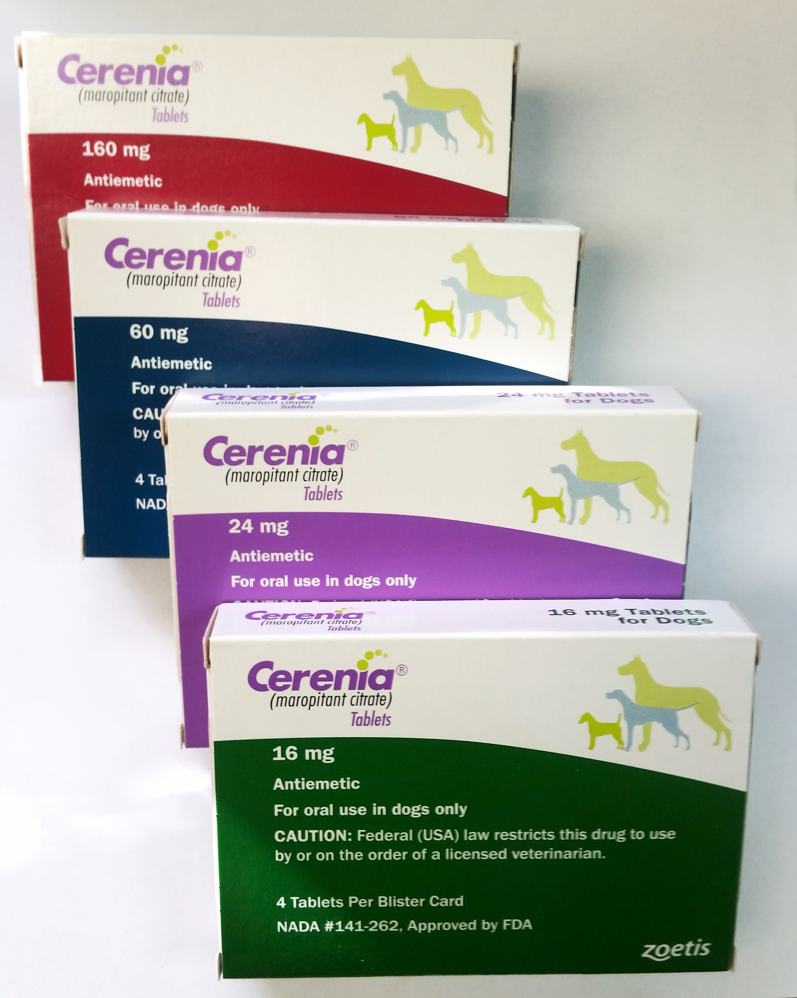 Packaging of oral Cerenia (maropitant) as sold by Zoasis.